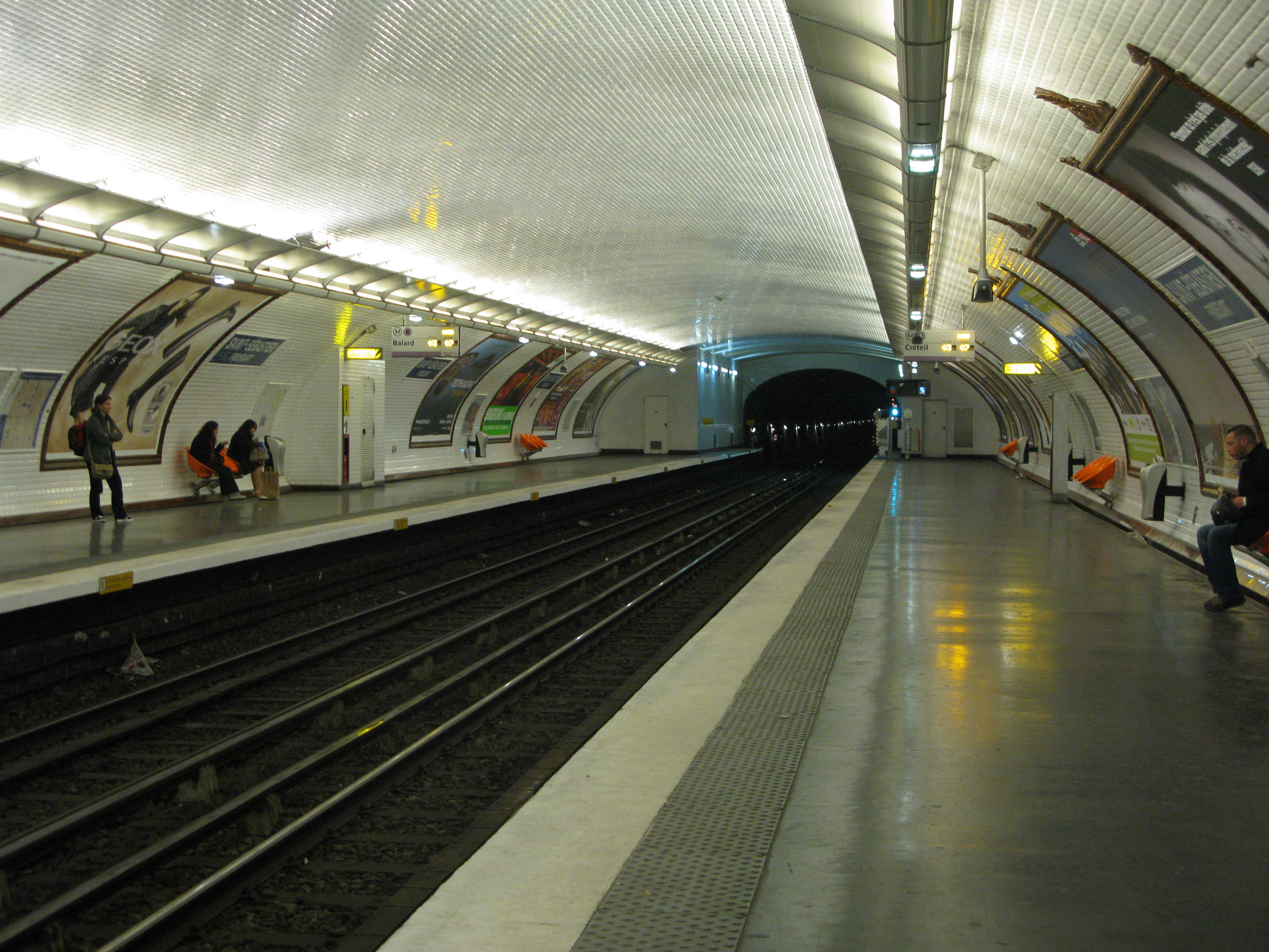 Subway station Saint-Sébastien-Froissart, line 8, Paris.